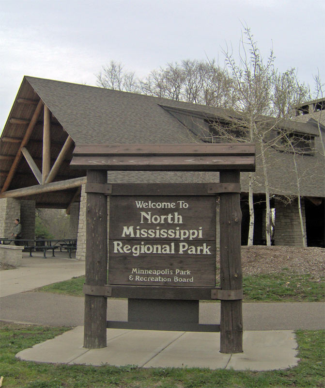 North Mississippi Regional Park sign. taken by Caleb Musselman